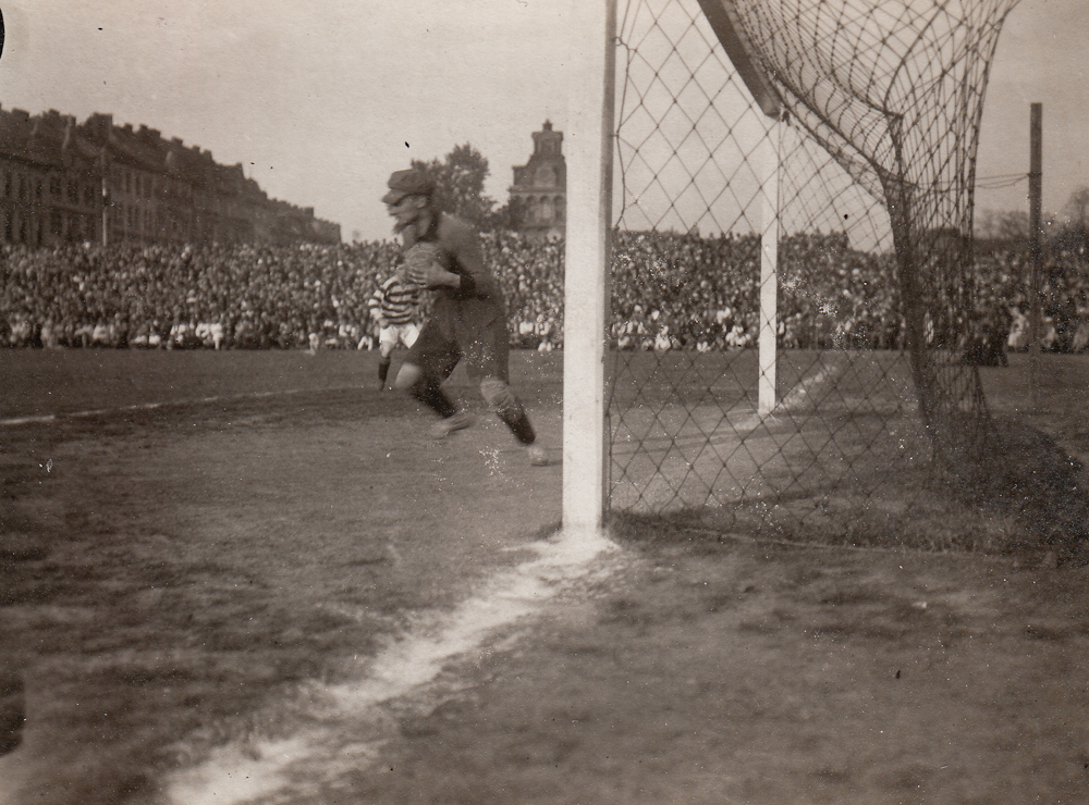 Jaroslav Cháňa - goalkeeper in czech football team Slavia Praha